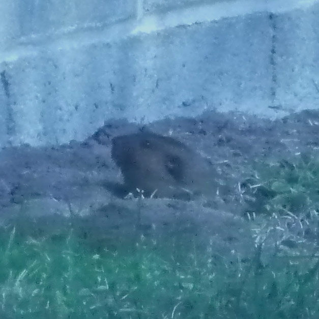 Author - Joshua Cook ( me )